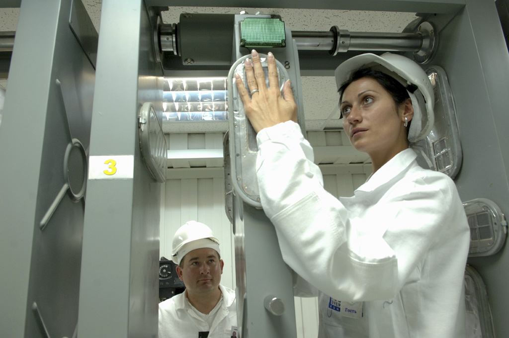 “Kursk Nuclear Power Plant”. Radiation monitoring at Kursk Nuclear Power Plant in the town of Kurchatov.